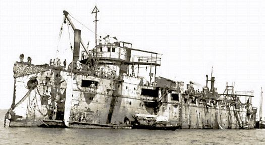 el crucero Varyag desruído